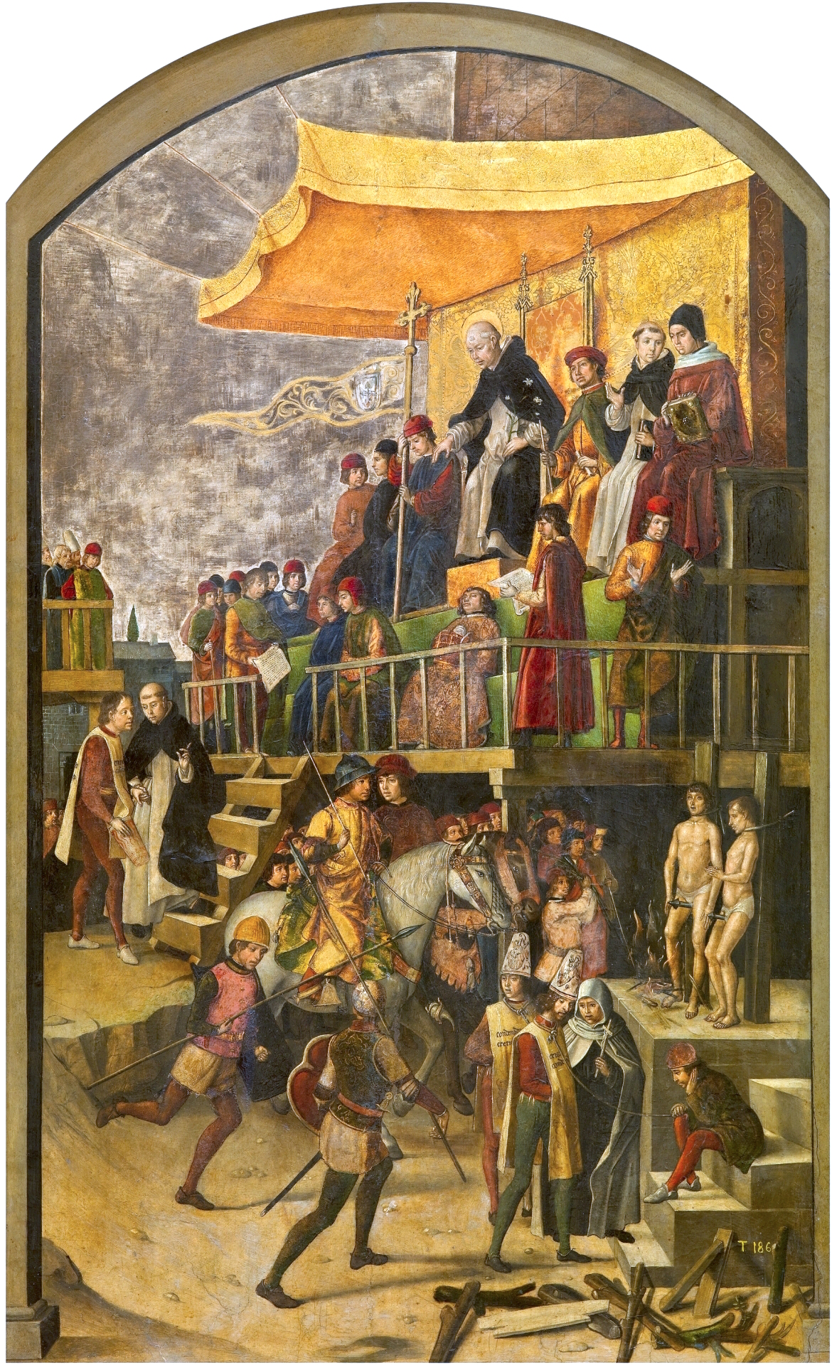 Saint Dominic presiding over an Auto-da-fe. From the sacristy of the Santo Tomás church in Ávila.